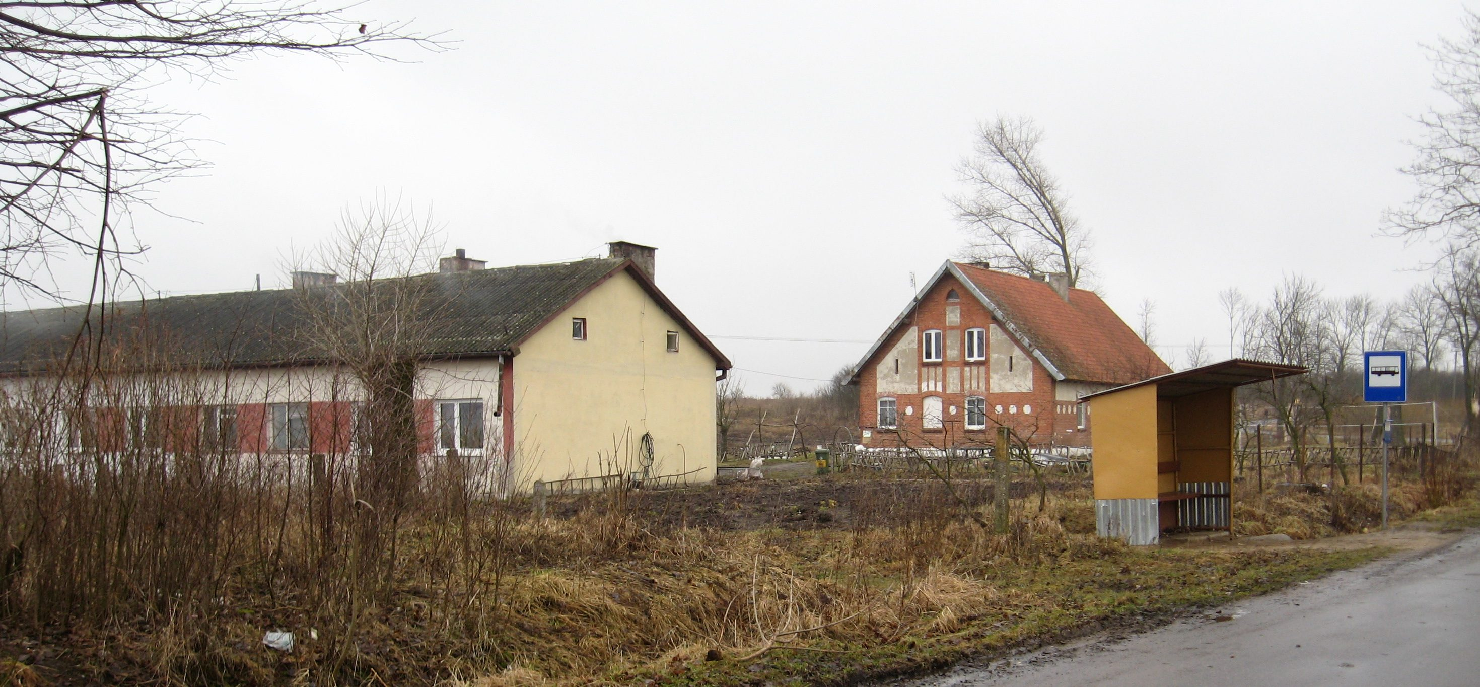 The village Kiemławki Małe in Poland - OpenStreetMap (Info)